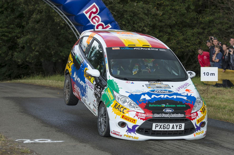 Rally Germany 2012 ADAC Rallye Deutschland,Arena Panzerplatte 1,Candido Carrera,Ford Fiesta R2,Gina,Jose Antonio Suarez,Motorsport,Rally,Rallye,Rallye Deutschland,SS9,WP9,WRC